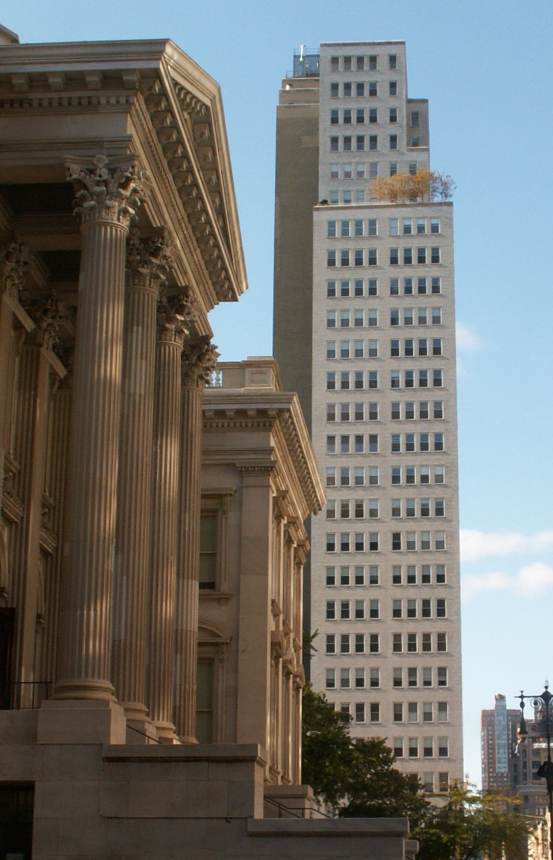 Looking west past Tweed Courthouse at Tower 270 in November 2007. Photo by poster.